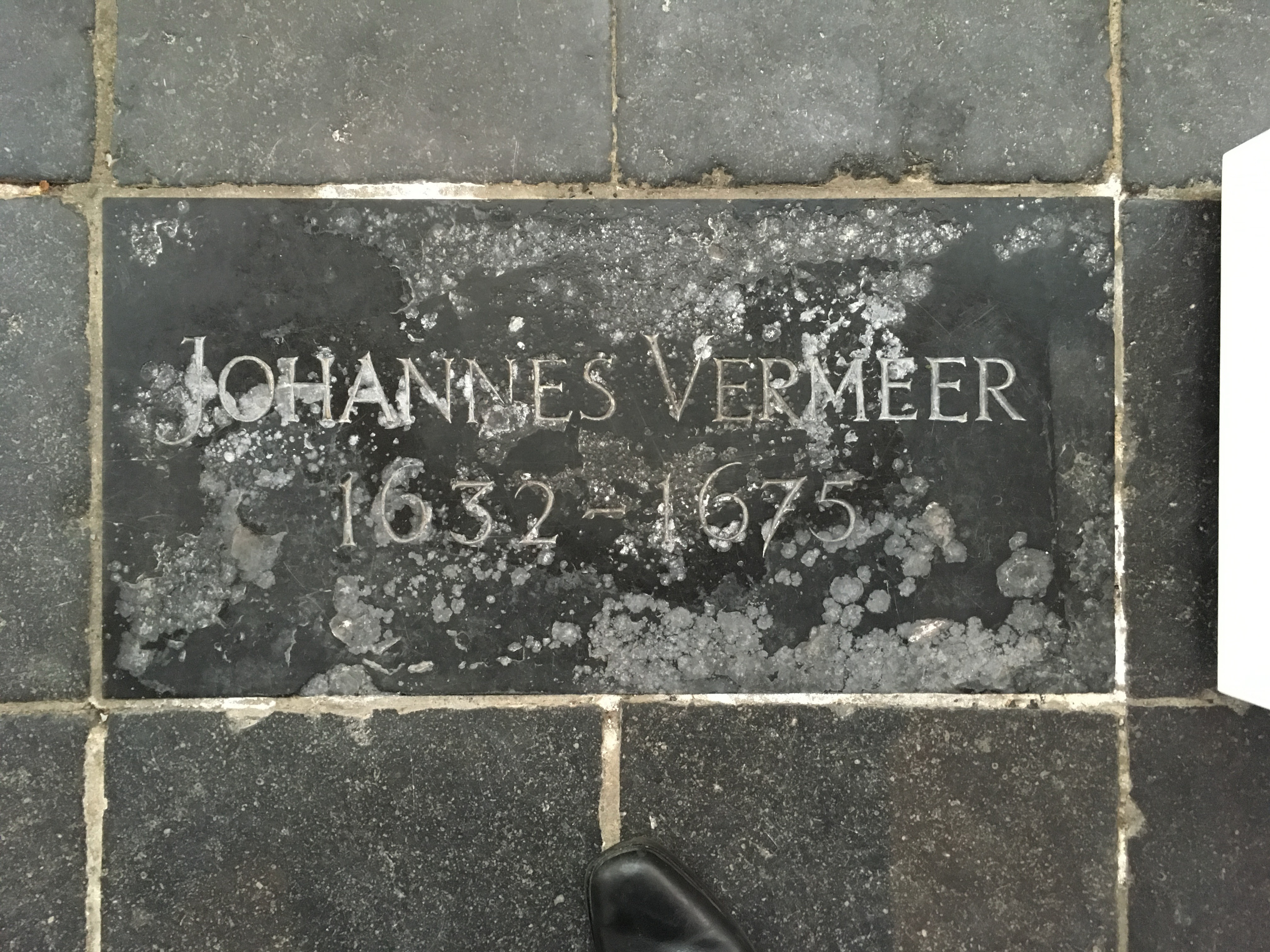 1st Vermer Memorial in Oude Kerk (Delft)